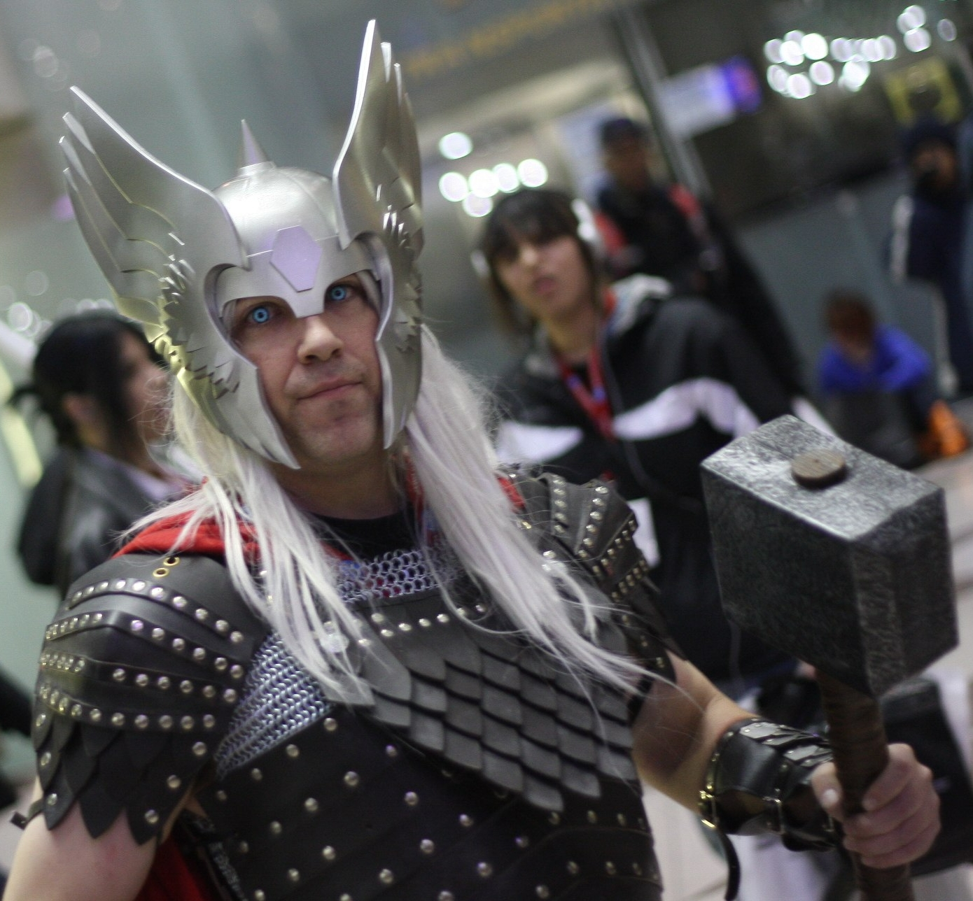 Cosplay of Thor NYC Comic Con 2009